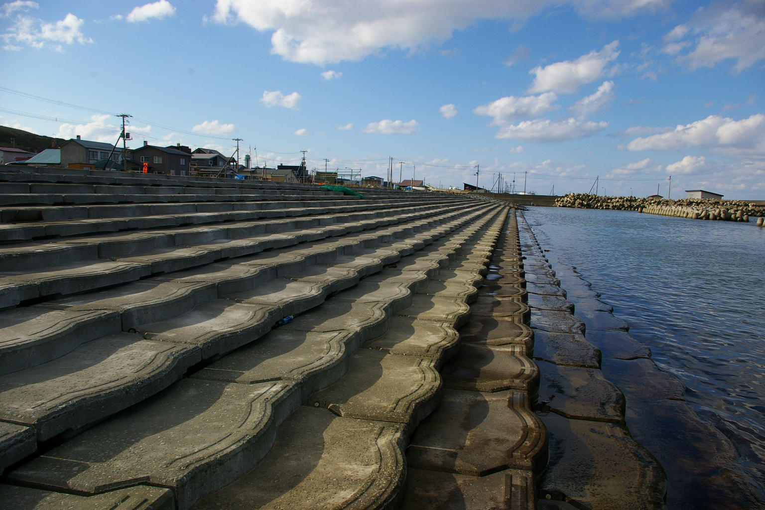 "GANGI" Stairs-like seashore.